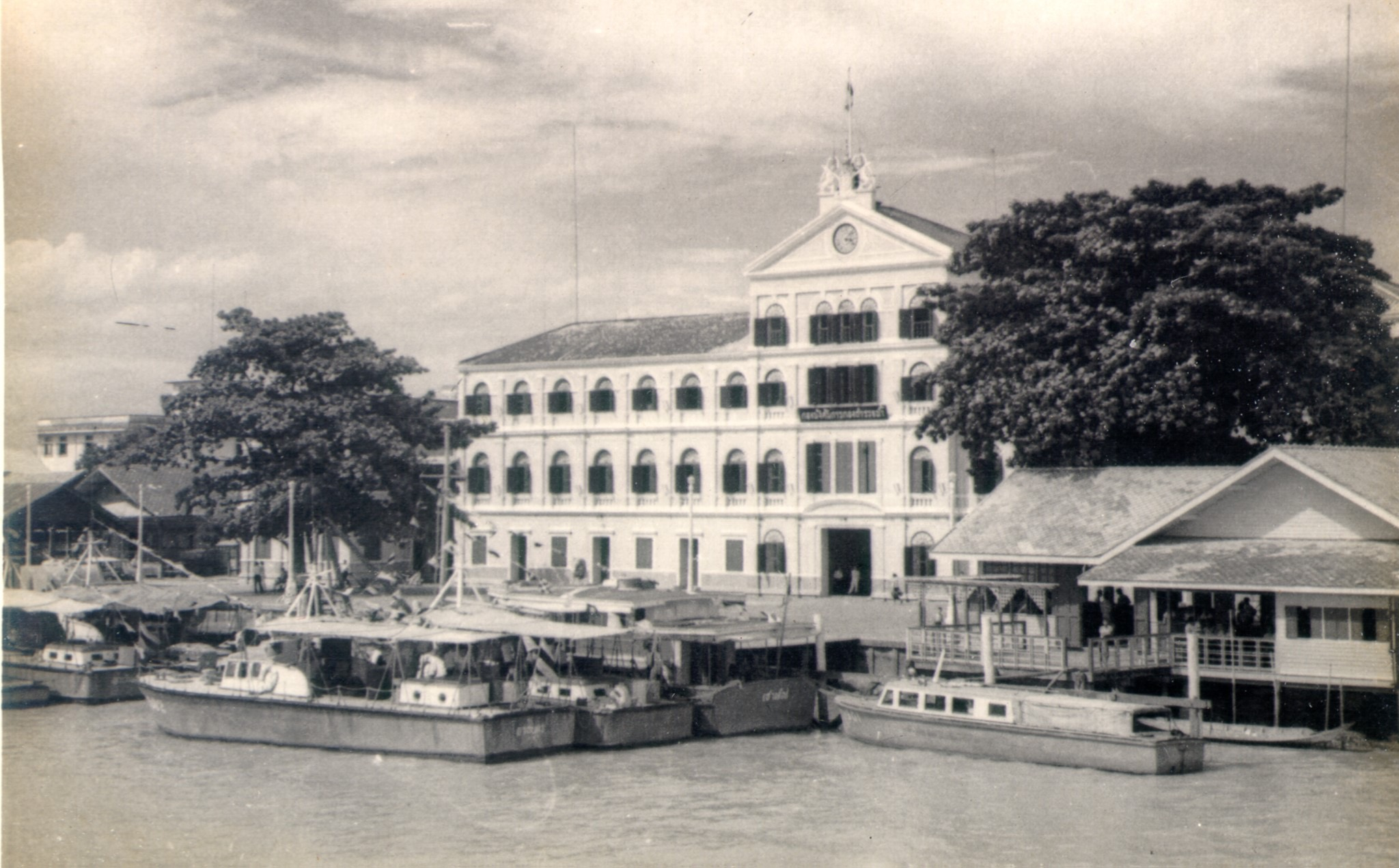 Bangkok Customs House, old photo, as Marine Police headquarters Year: 1950s Photographer: Unknown Source: Saint Gabriel's Foundation (Thailand) Archive